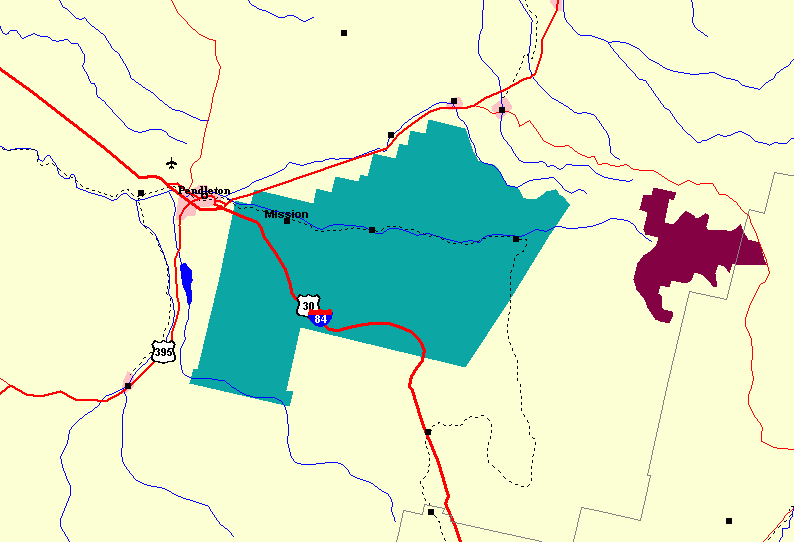 Map of Umatilla Indian Reservation and vicinity